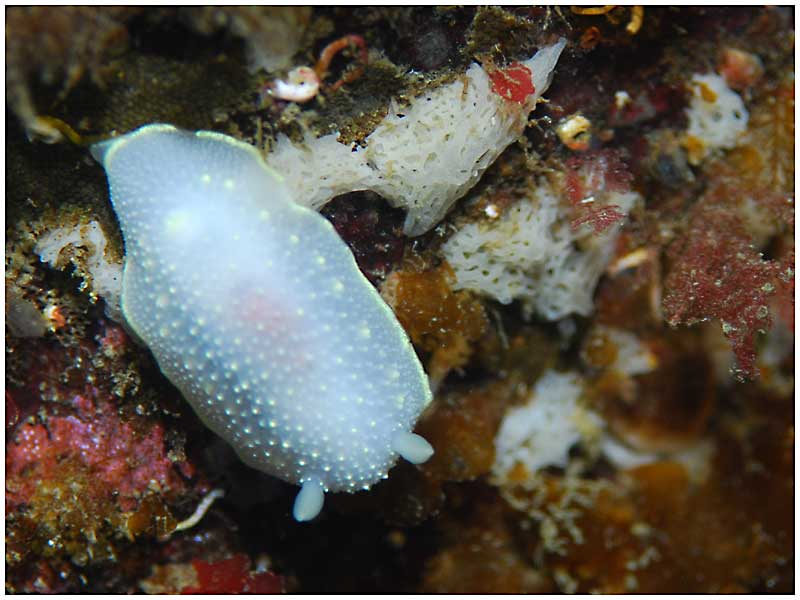 The seaslug Cadlina luteomarginata - taken at Resurrection Bay AK; interesting pink spot in center